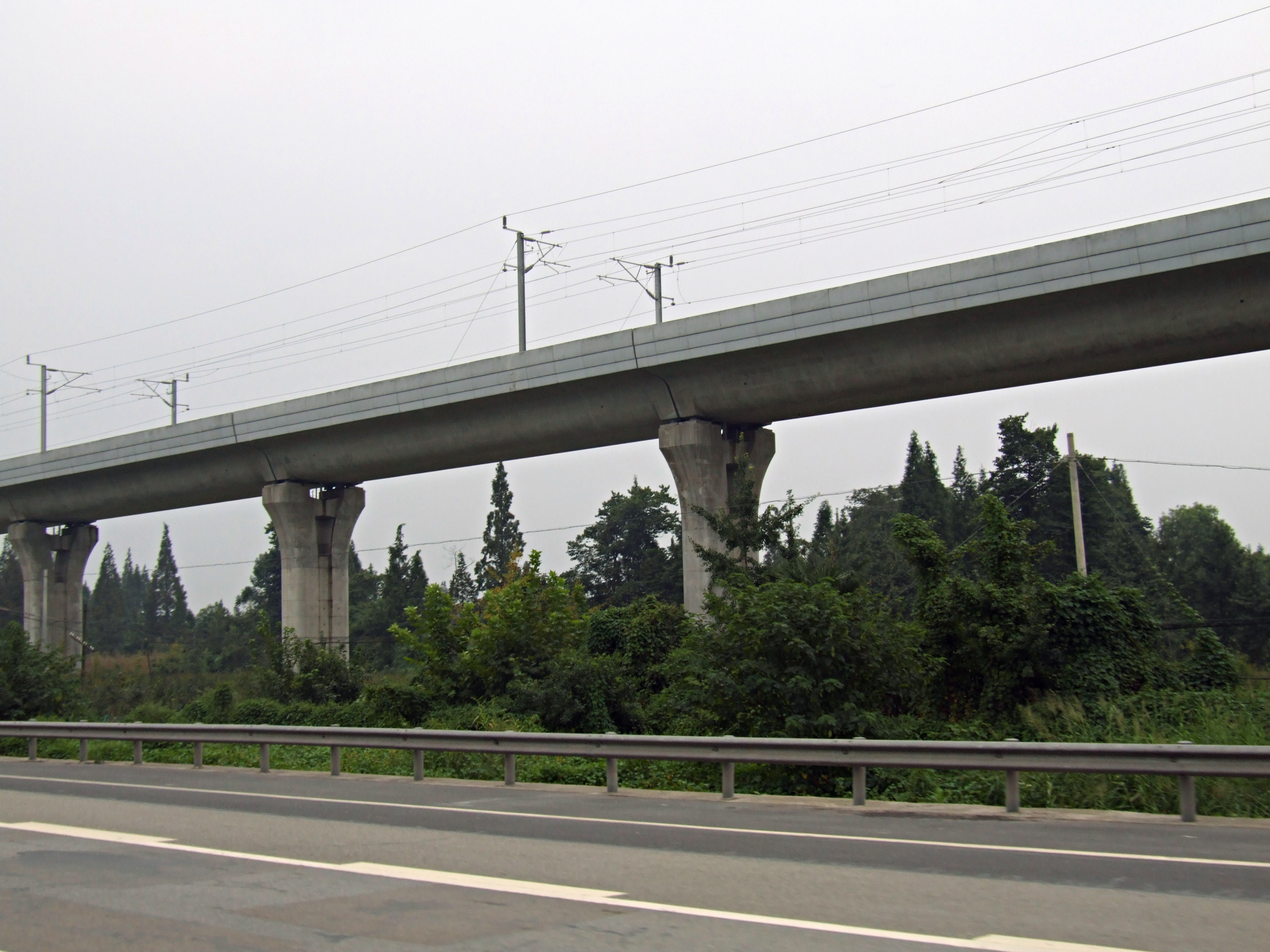 Cheng-Guan(Chengdu to Dujiangyan, Dujiangyan was known as Guanxian in the past) High Speed Railway, which is partly parallel with Cheng-Guan Expressway